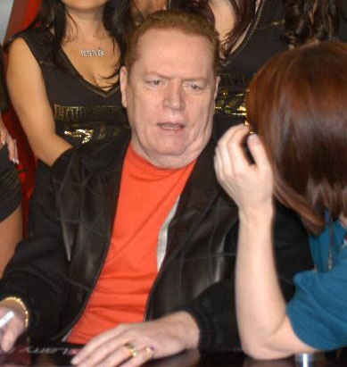 Larry Flynt, American publisher and head of Larry Flynt Publications (LFP). Taken at the Adult Entertainment Expo 2007.